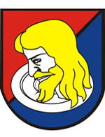 Coat of arms of Sabinov, Slovakia